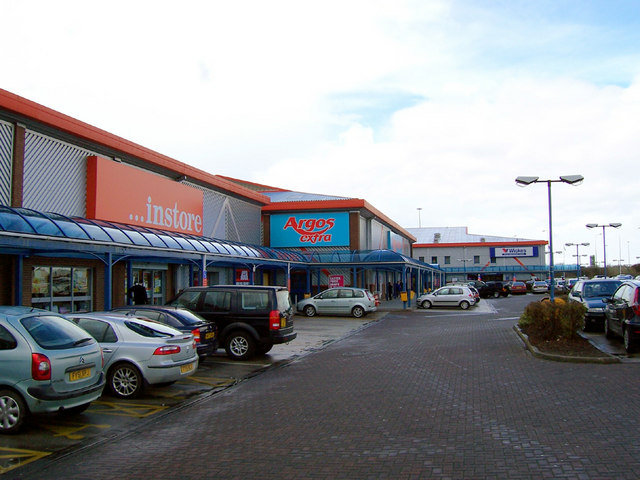 Alexandra Dock Retail Park. This used to be part of the Fish Docks area but has now been redeveloped. Picture taken looking North.